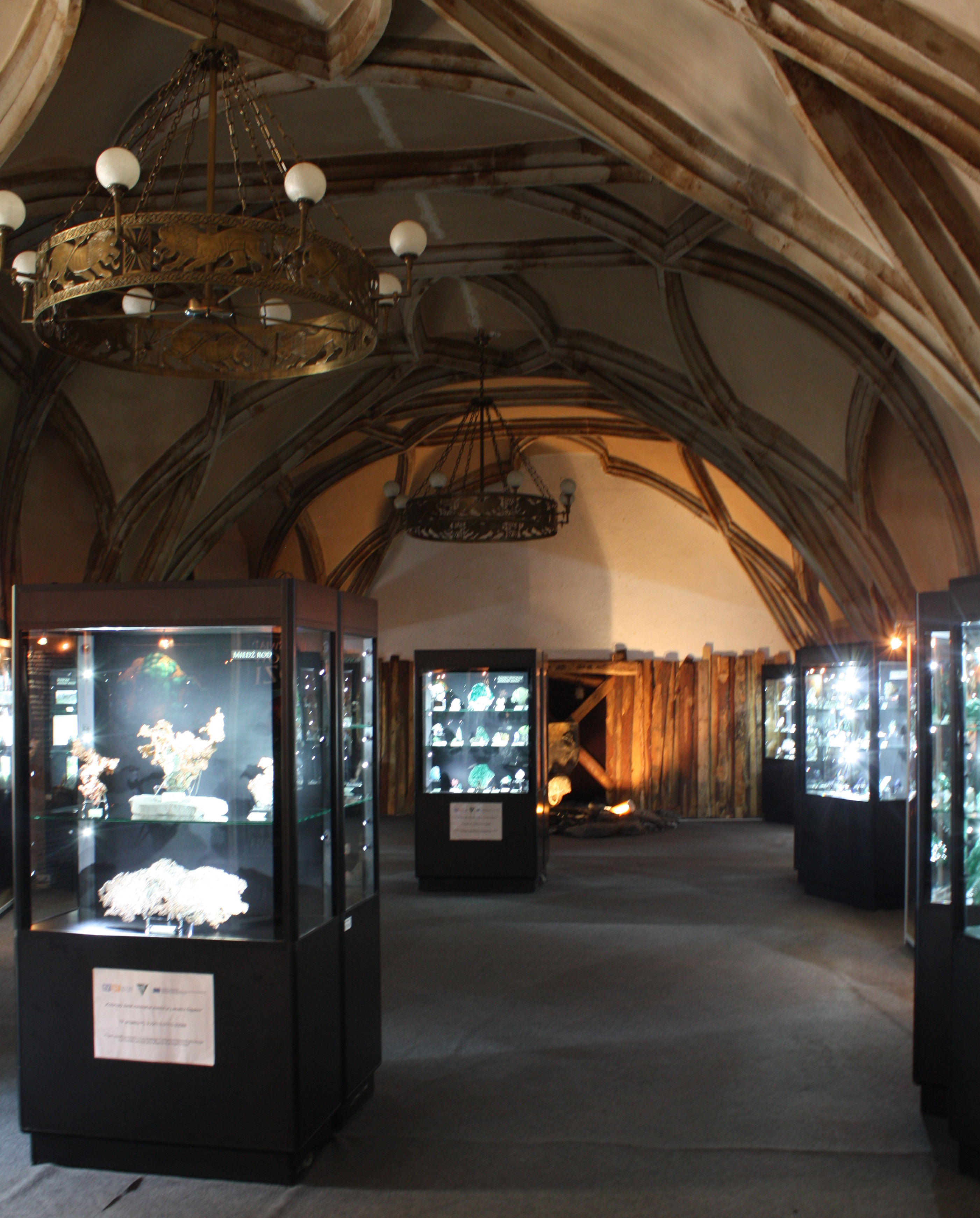 This photo of Lower Silesian Voivodeship was taken during Wikiexpedition 2013 set up by Wikimedia Polska Association. You can see all photographs in category Wikiekspedycja 2013. English | Polski | +/−